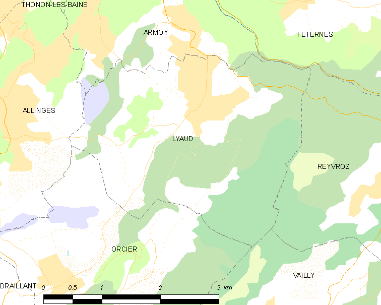 Map of French municipality Lyaud